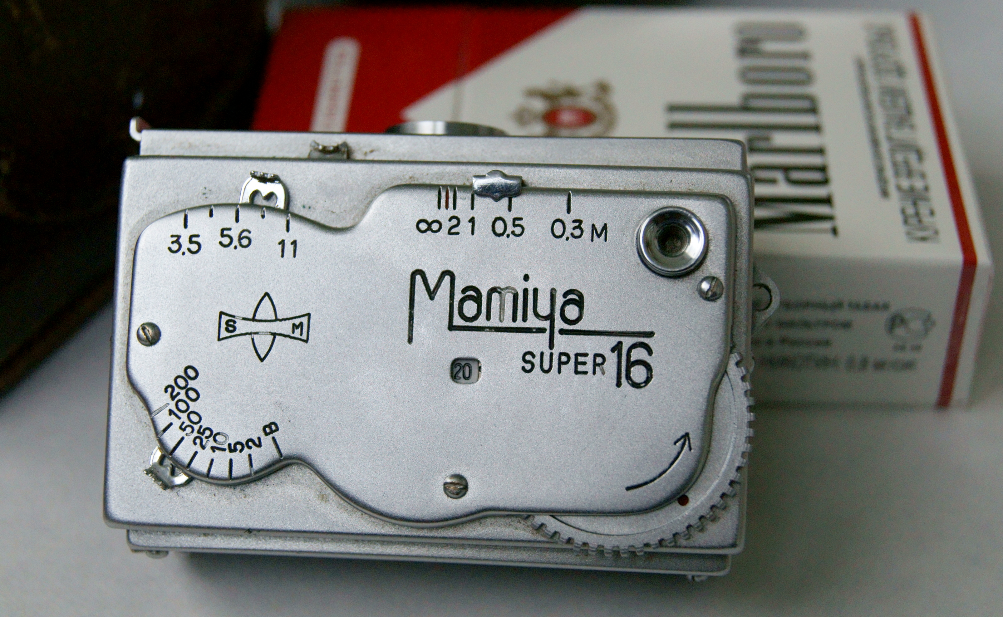 The camera is very small, but it has all the necessary controls: distance, shutter speed, aperture.